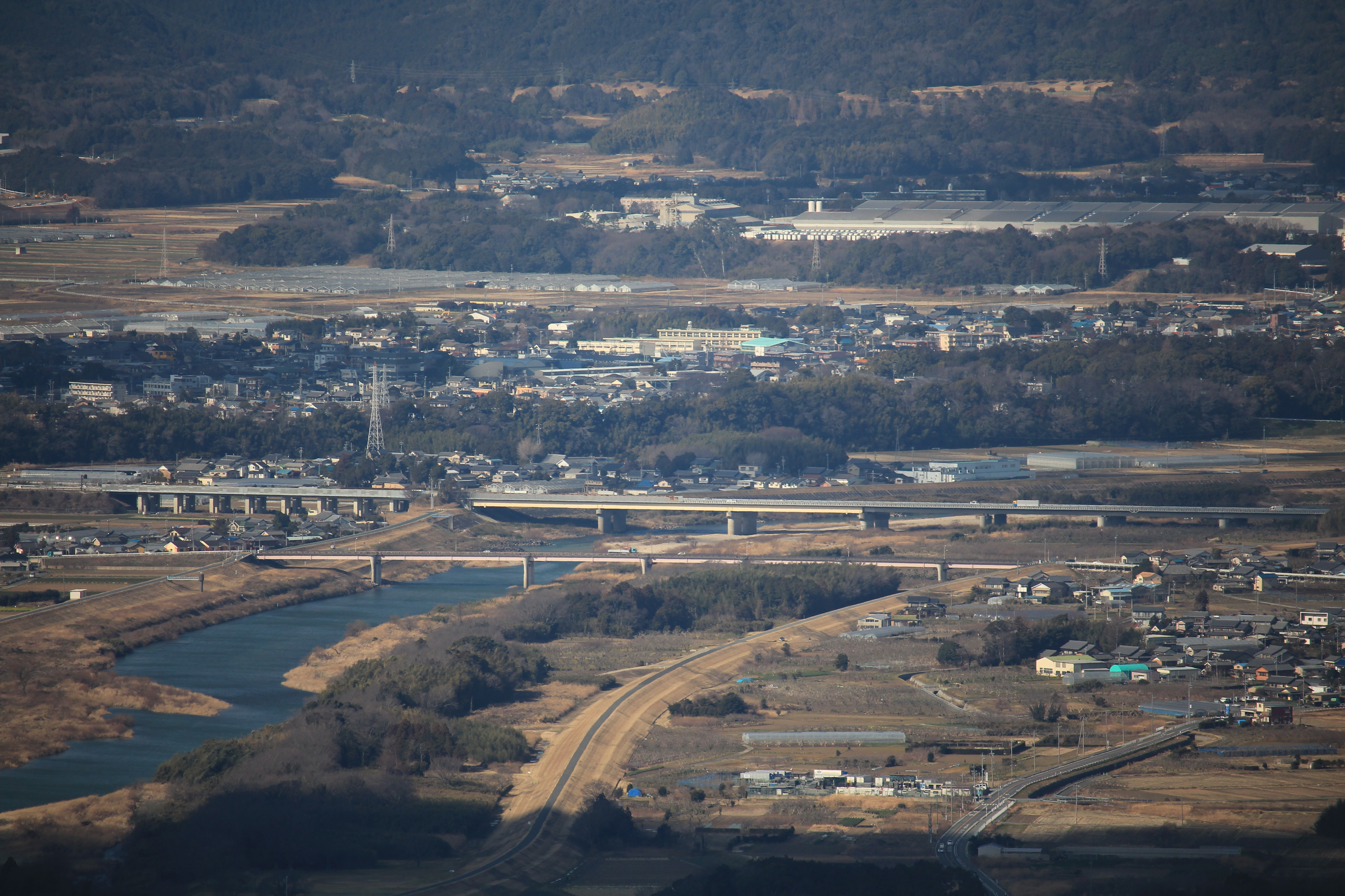 Toyo River Bridge of Tomei Expressway and Kamo Bridge over Toyo River seen from Mount Ishikaki, in Aichi prefecture, Japan.